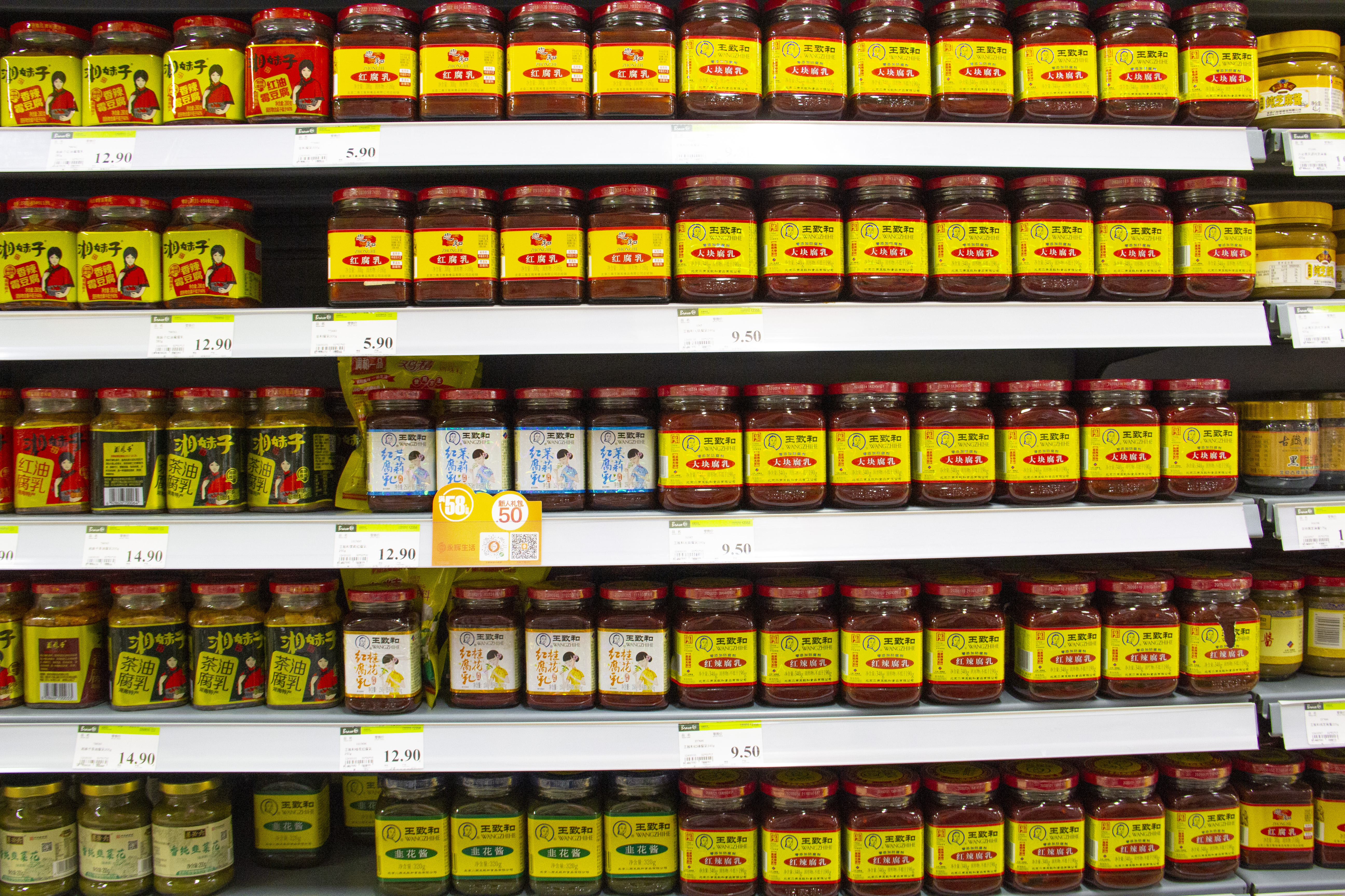 Pickled tofu